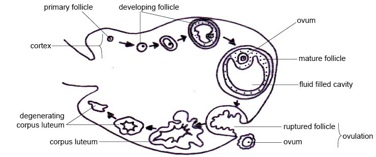 By Ruth Lawson. Otago Polytechnic.